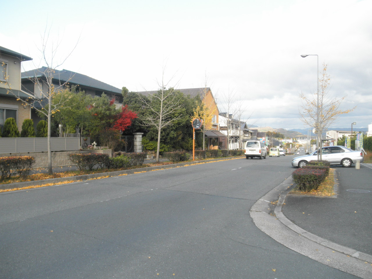 Kabutodai5 Kizugawacity Kyotopref.JPG